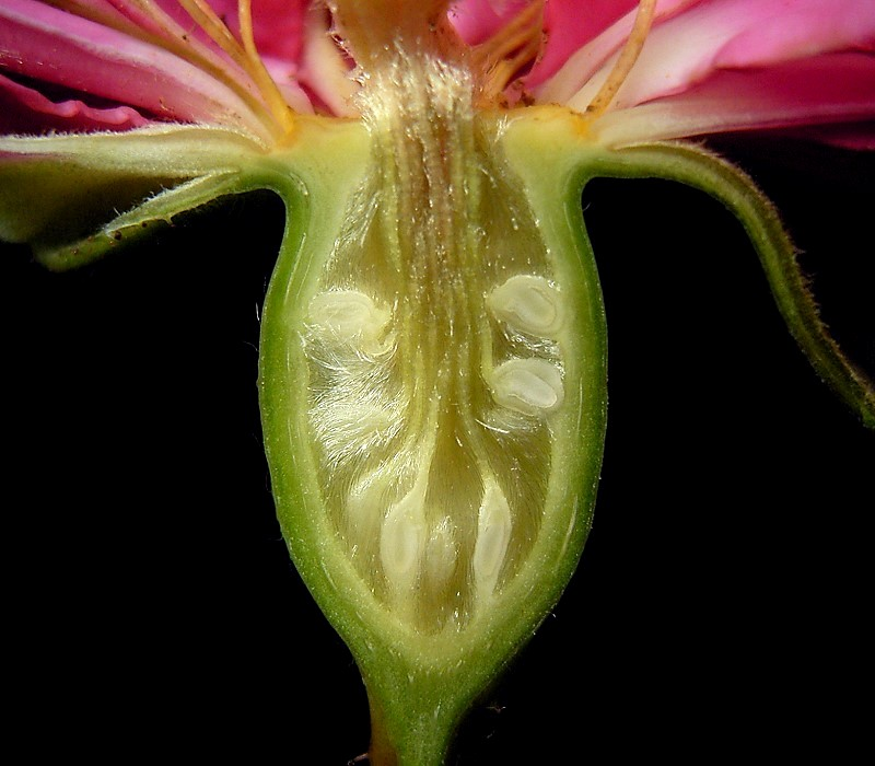 Cross section of a developing rose hip, showing the ovary